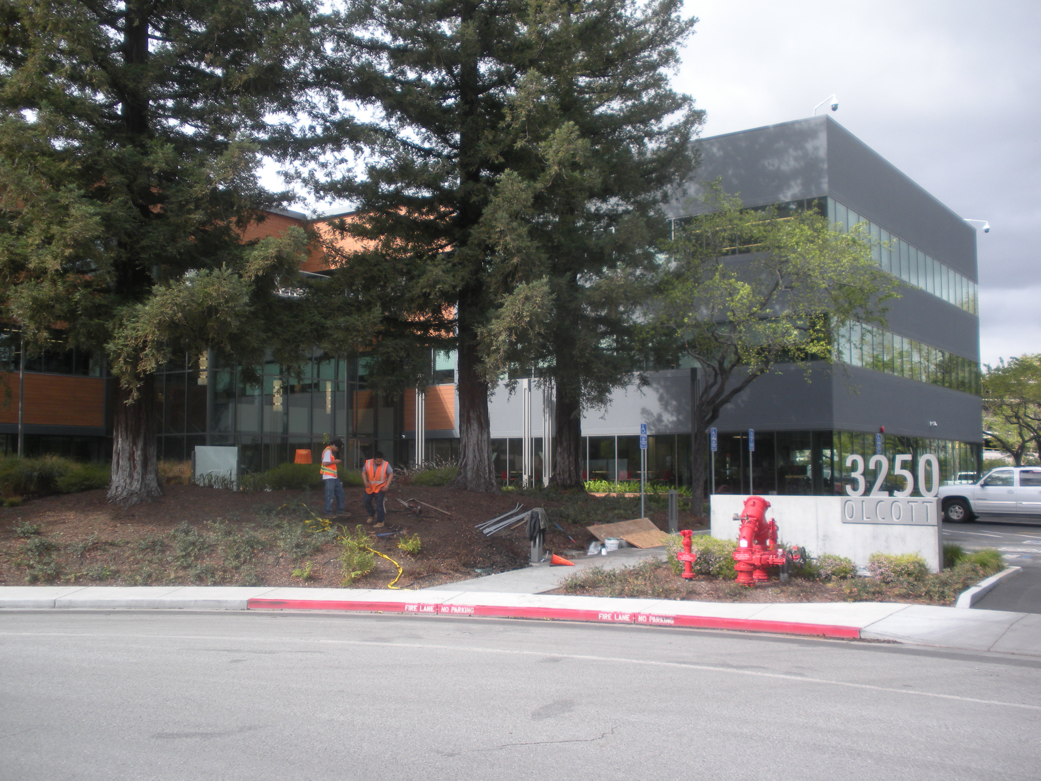 This is 3250 Olcott Street in Santa Clara, California. It is the headquarters of Couchbase, Inc. Originally posted to my Flickr